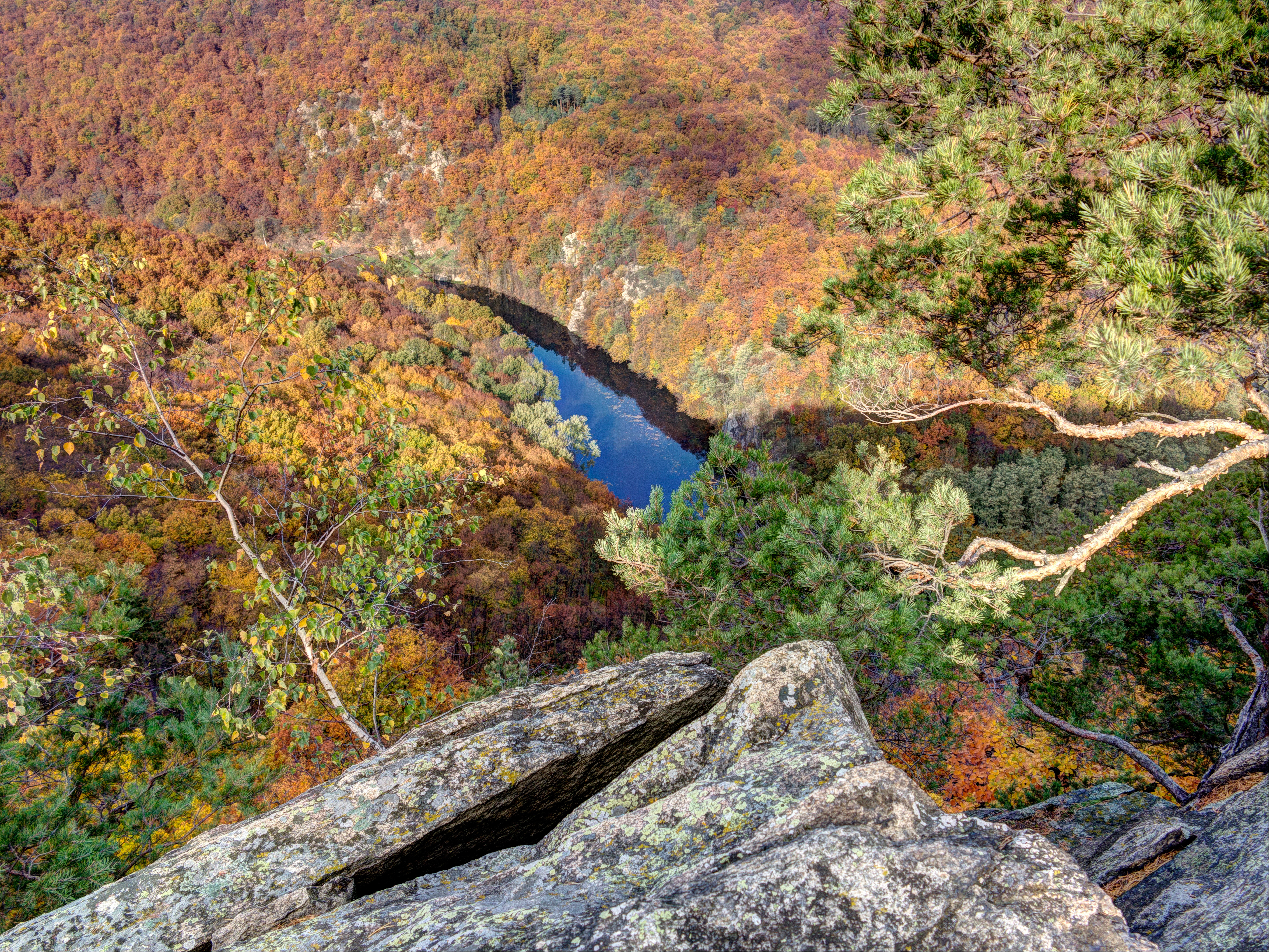 ThePodyjí National Park, a national park in the South Moravian Region of the Czech Republic / EU. View from Sealsfield stone.